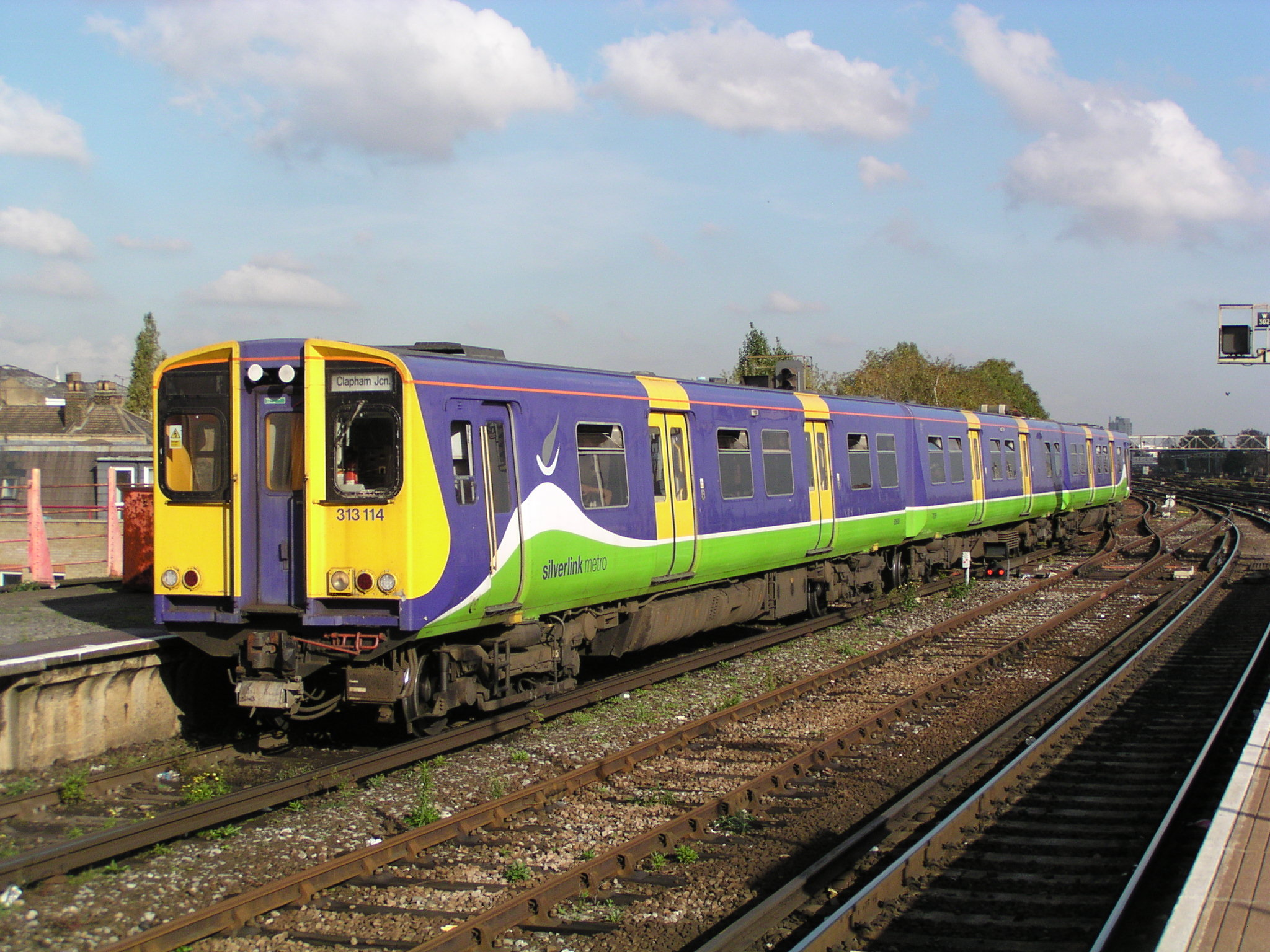 British Rail Class 313/1, no. 313114 arriving at Clapham Junction on 30 October 2004 with a service from Willesden Junction. This unit is painted in Silverlink Metro livery.